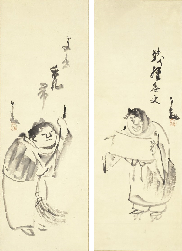 Teh monk-pair Hanshan & Shide